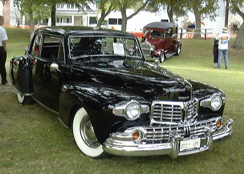 1948 Lincoln Continental photographed by Morven at the Muckenthaler Museum's annual car show on May 17, 2003.